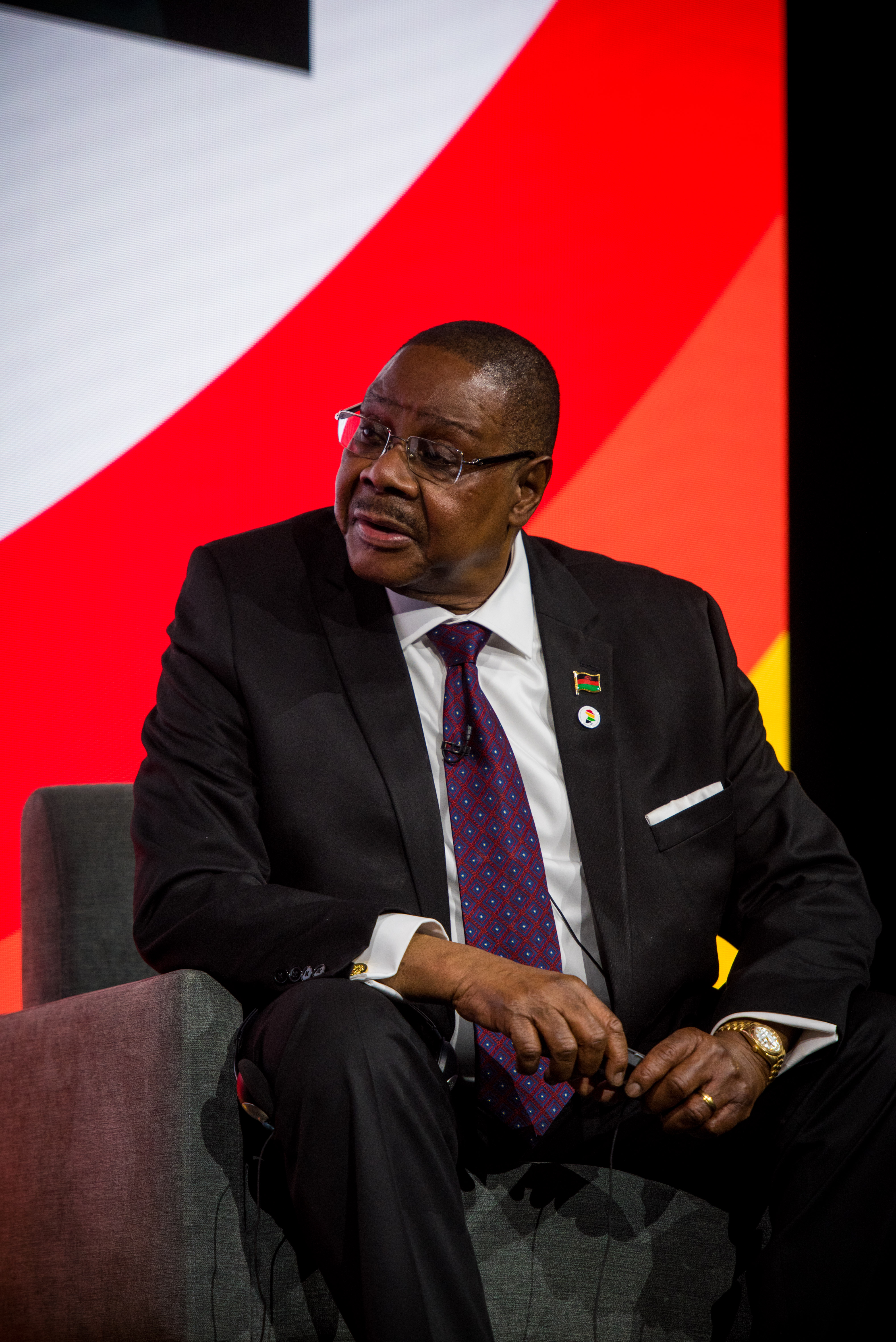 His Excellency President Arthur Peter Mutharika of Malawi, speaking at the UK-Africa Investment Summit in London, January 2020 20200120120825ZJW_4286